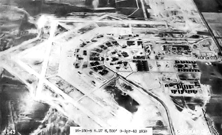 Stuttgart Army Airfield, Arkansas from 1945 AAF Directory